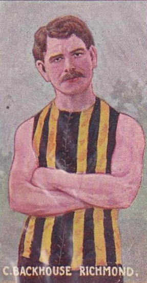 Cigarette card of Charlie Backhouse from the Sniders & Abrahams 1906 series